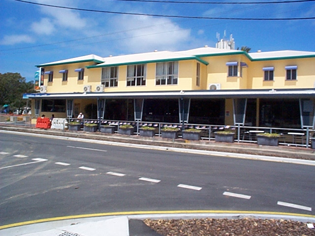 The ever-popular Blue Pacific Hotel at Woorim on the "surf side" Taken by MichaelGG on 7 November 2006